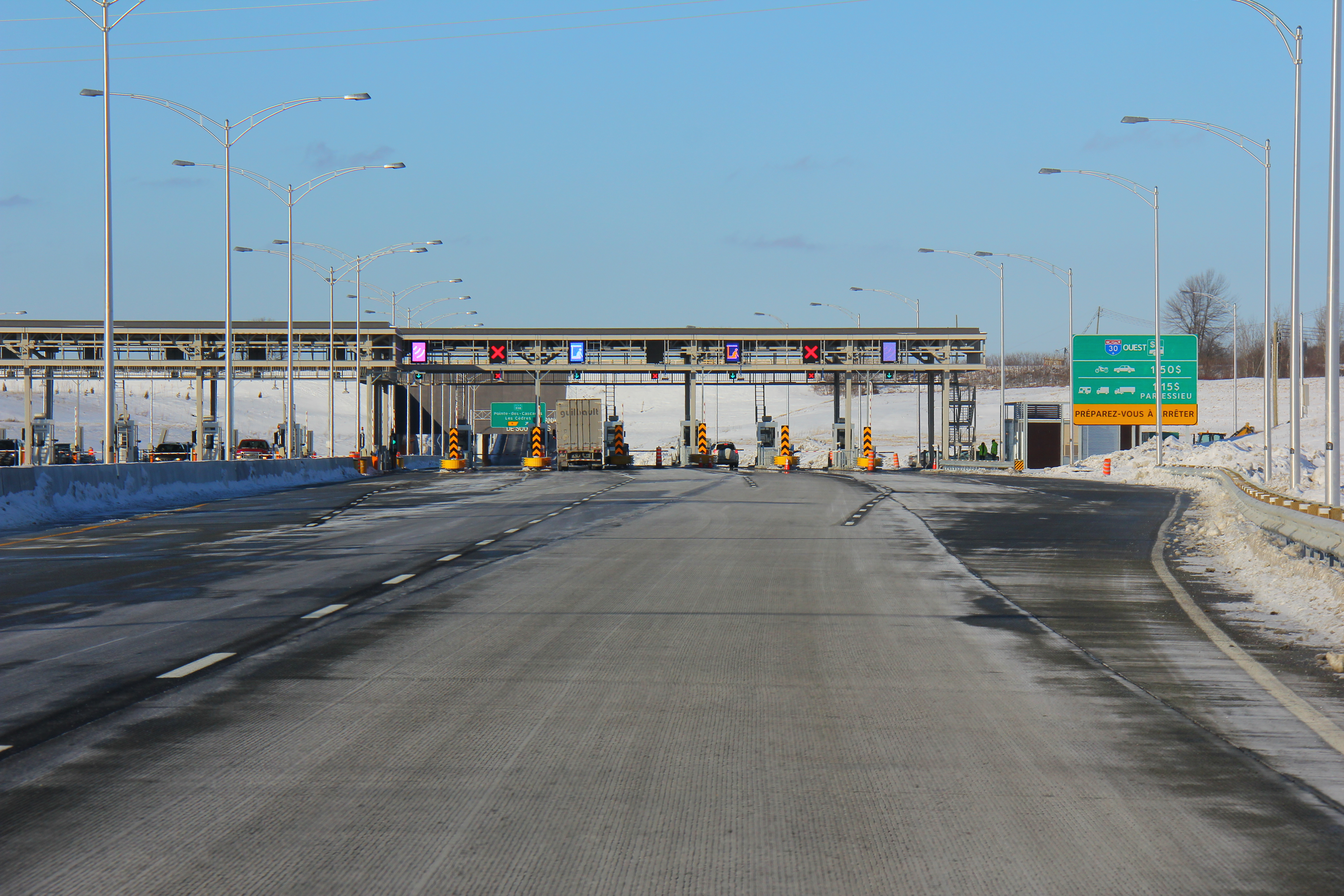 Toll Barrier along Quebec Autoroute 30 westbound.